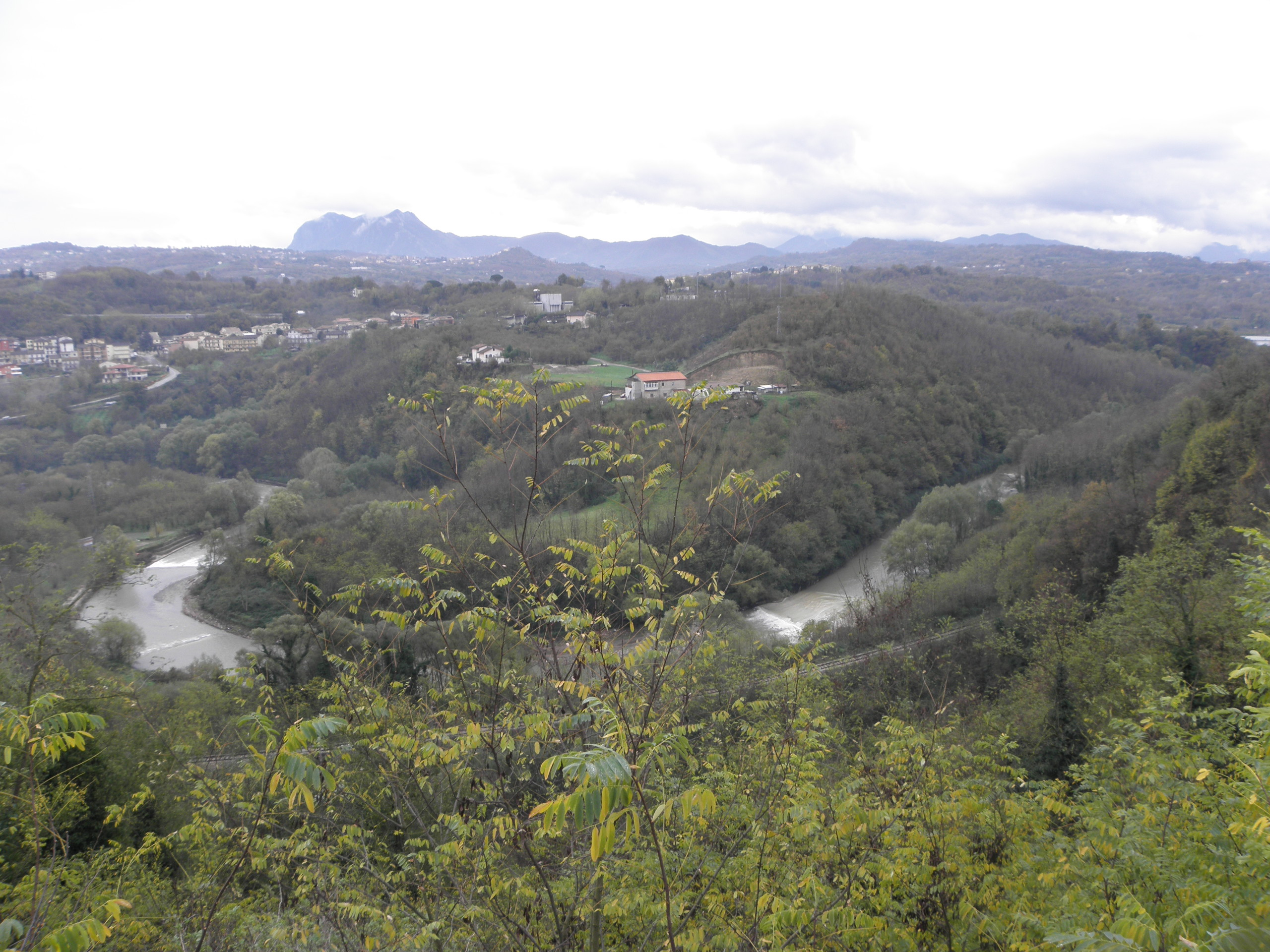 The Sabato river with the commune of Pratola Serra on the right bank and the commune of Prata Principato Ultra on the left bank.